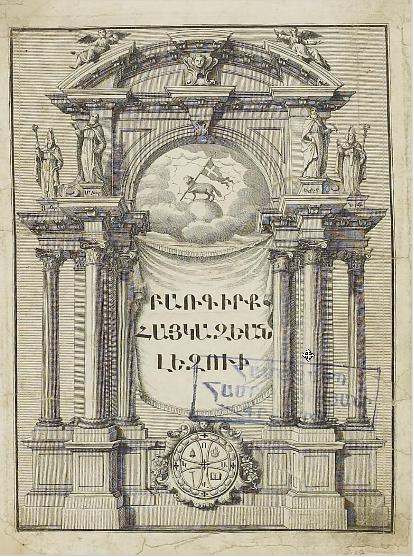 Cover of the book Baqrgirq Haykazian Lezvi (Dictionary of the Armenian Language) by Mkhitar Sebastatsi, published in 1769, Venice.